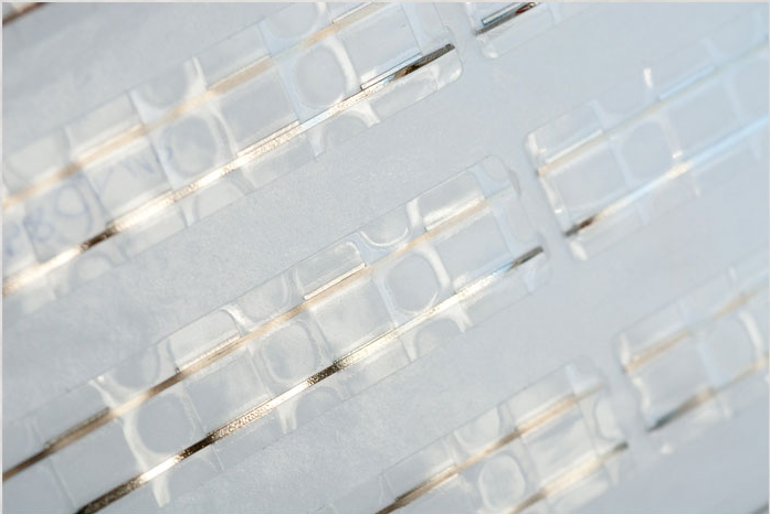 Electronic article surveillance electromagnetic label